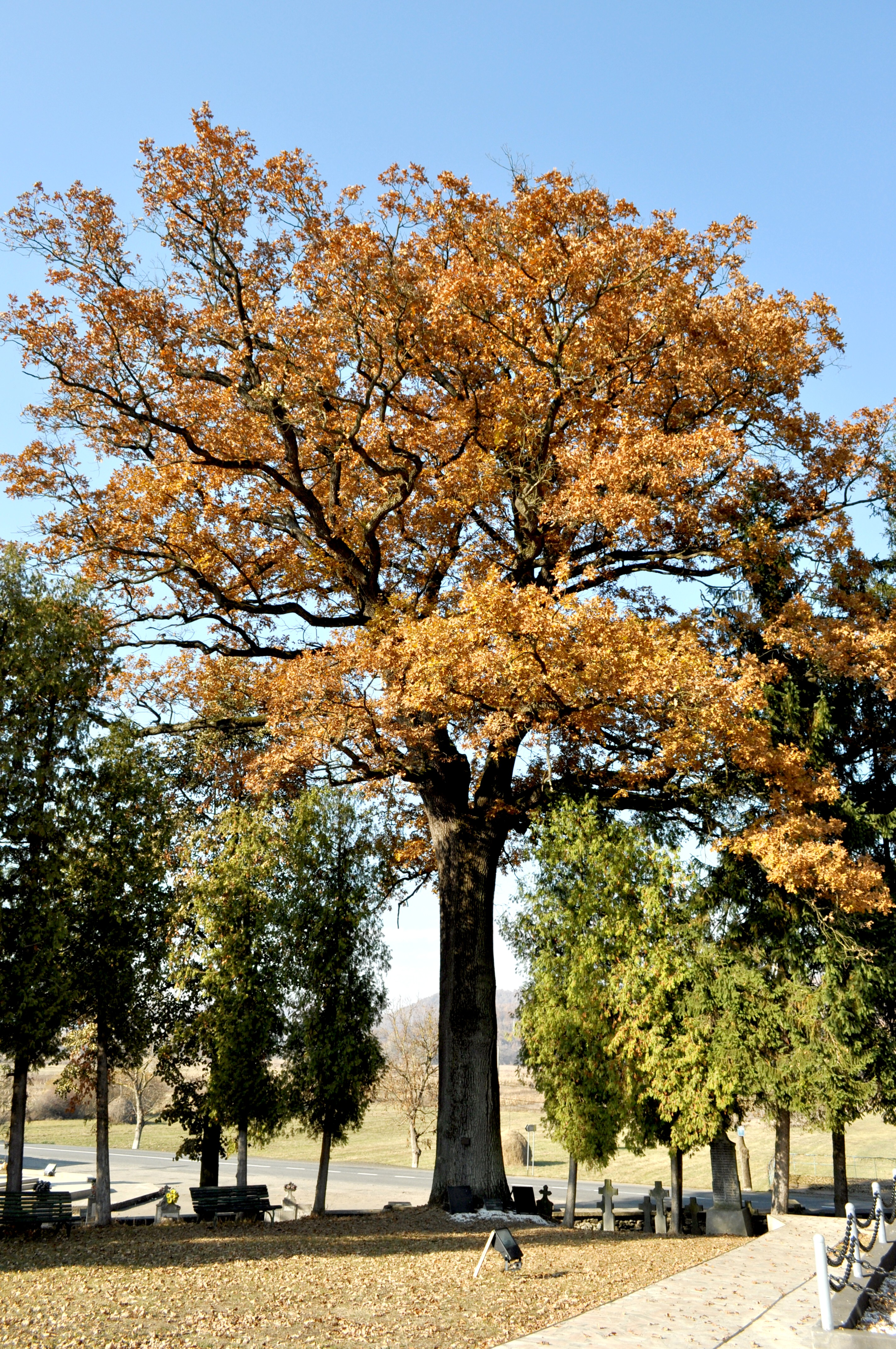 Avram Iancu's sessile oak